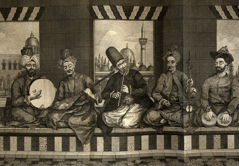 Syrian music band from Ottoman Aleppo, mid 18th century, by Alex. Russel, M.D. 1794. The Chamber Music drawn from life, as described by Russel, "the first is a Turk of lower class, he beats the Diff [Daff]. The person next to him is an ordinary Christian and plays the Tanboor. The middle figure is a Dervish, he is playing the Naie [Nay]. The fourth is a Christian of middle rank, he plays the Kamangi. The last man, he beats the Nakara with his fingers in order to soften the the sound for the voice, but the drum sticks appear from under his vest."